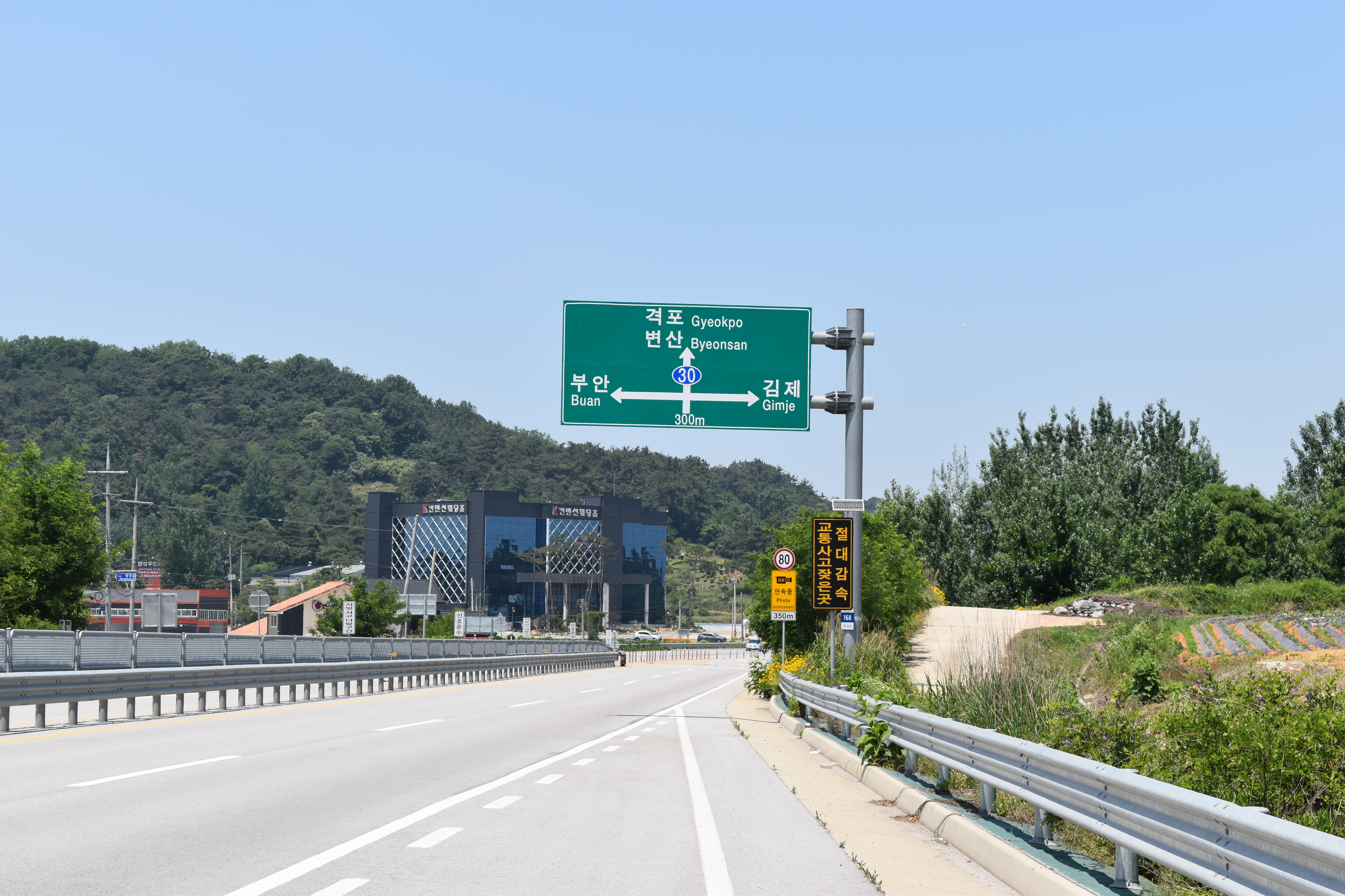 Korea Nationl Route 30 laid at Buan